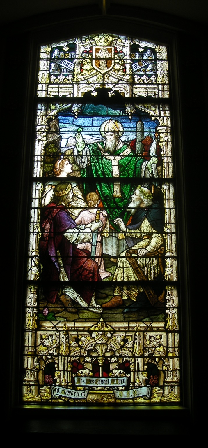 St. Patrick's Church in New Orleans, window depicting Saint Patrick in a traditional Irish iconographic style. According to Uploader, the design in the windows date to before 1924.